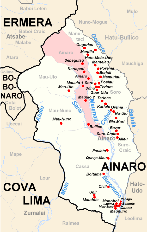 The administrative post of Ainaro, municipality Ainaro, East Timor